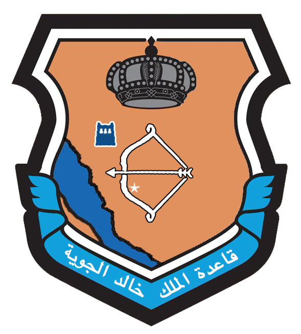 King Khalid Air Base emblem.